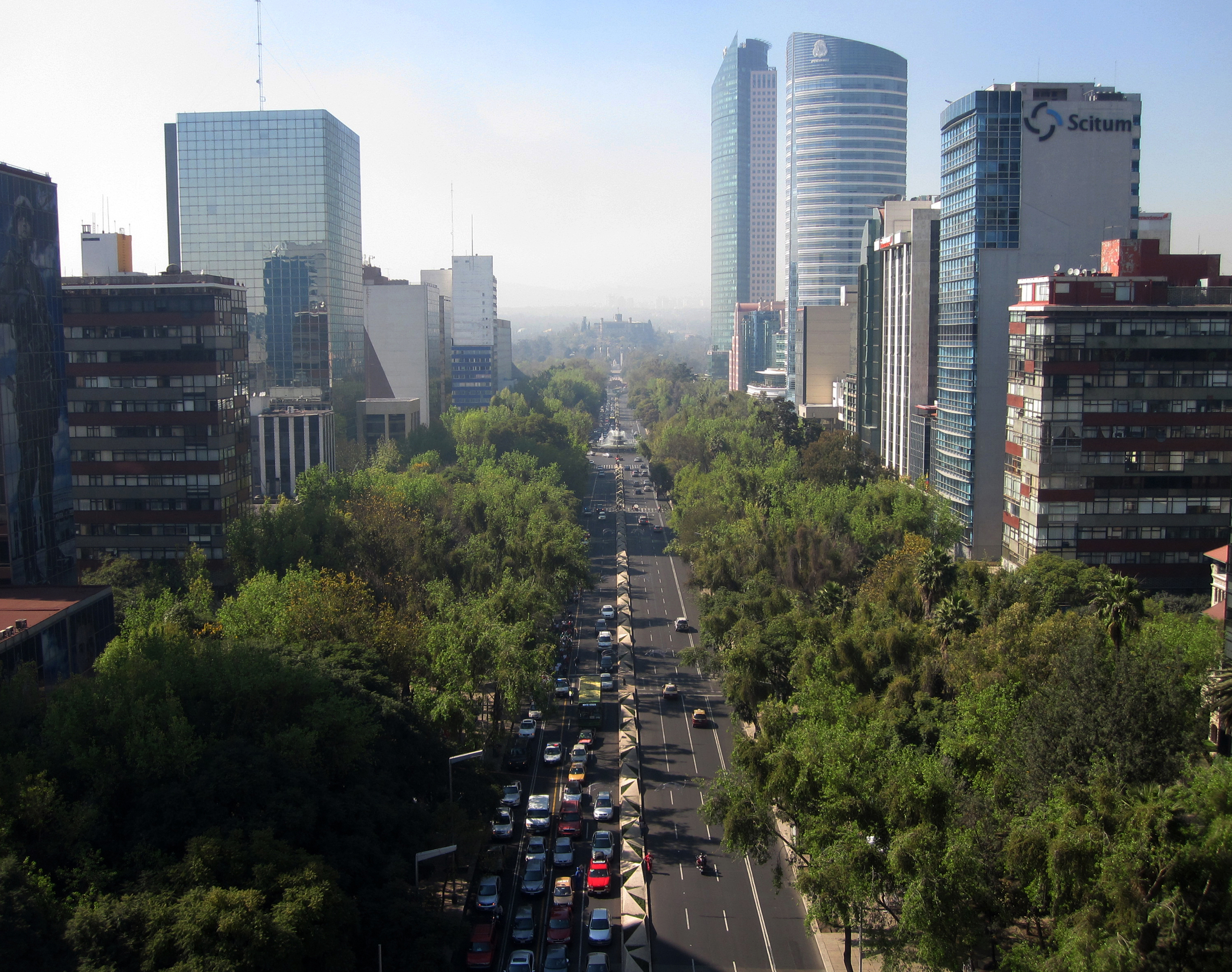 Paseo de la Reforma and the Chapultepec Castle seen from El Ángel de la Independencia